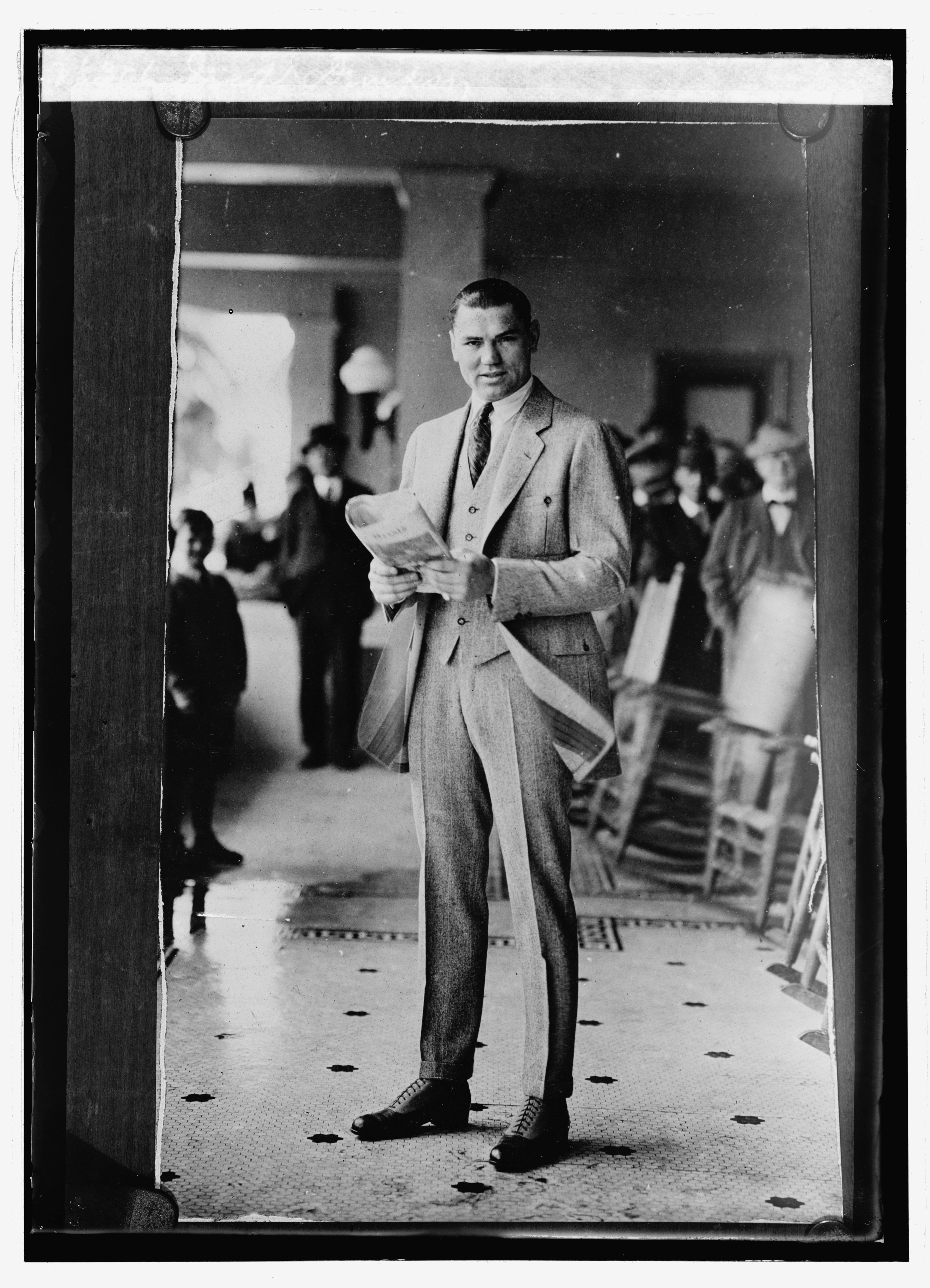 Title: Jack Dempsey Abstract/medium: 1 negative : glass ; 5 x 7 in. or smaller